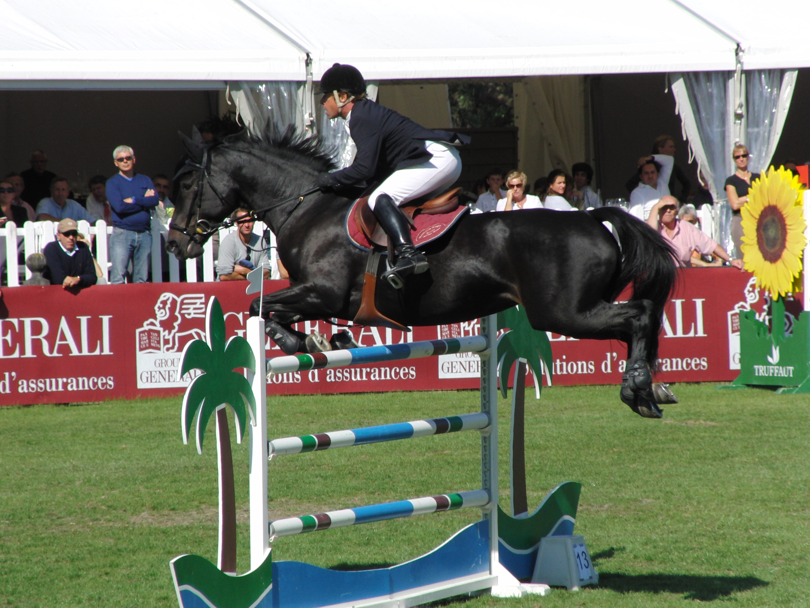 Michel Hécart and Ninon des loulou, Selle français - Championnats de France de saut d'obstacles "Master Pro" 2010 at Fontainebleau, France